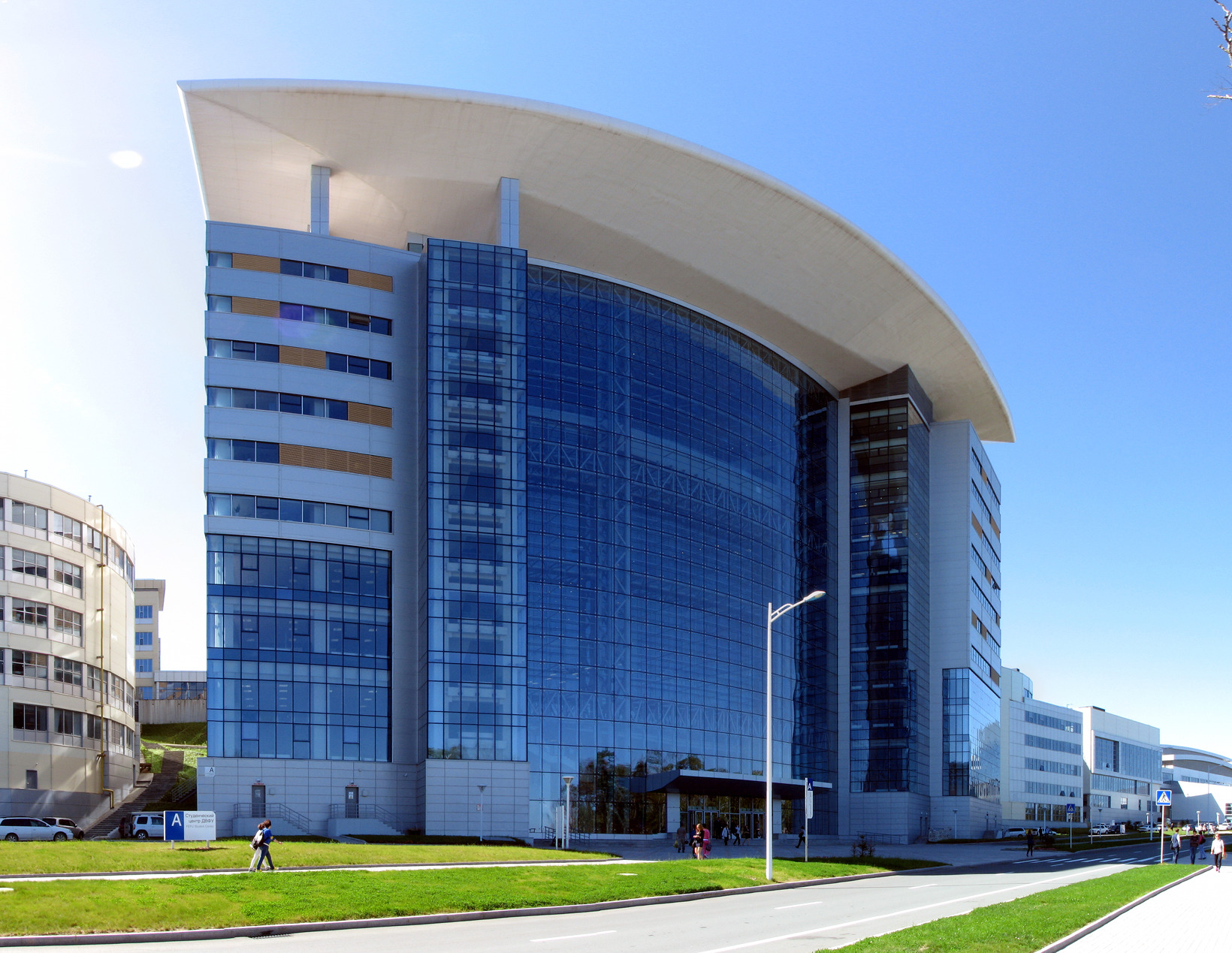 Press Center, Far Eastern Federal University, Vladivostok, Russia